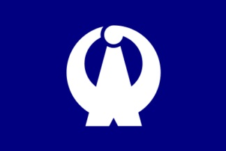 Flag of Oarai Ibaraki